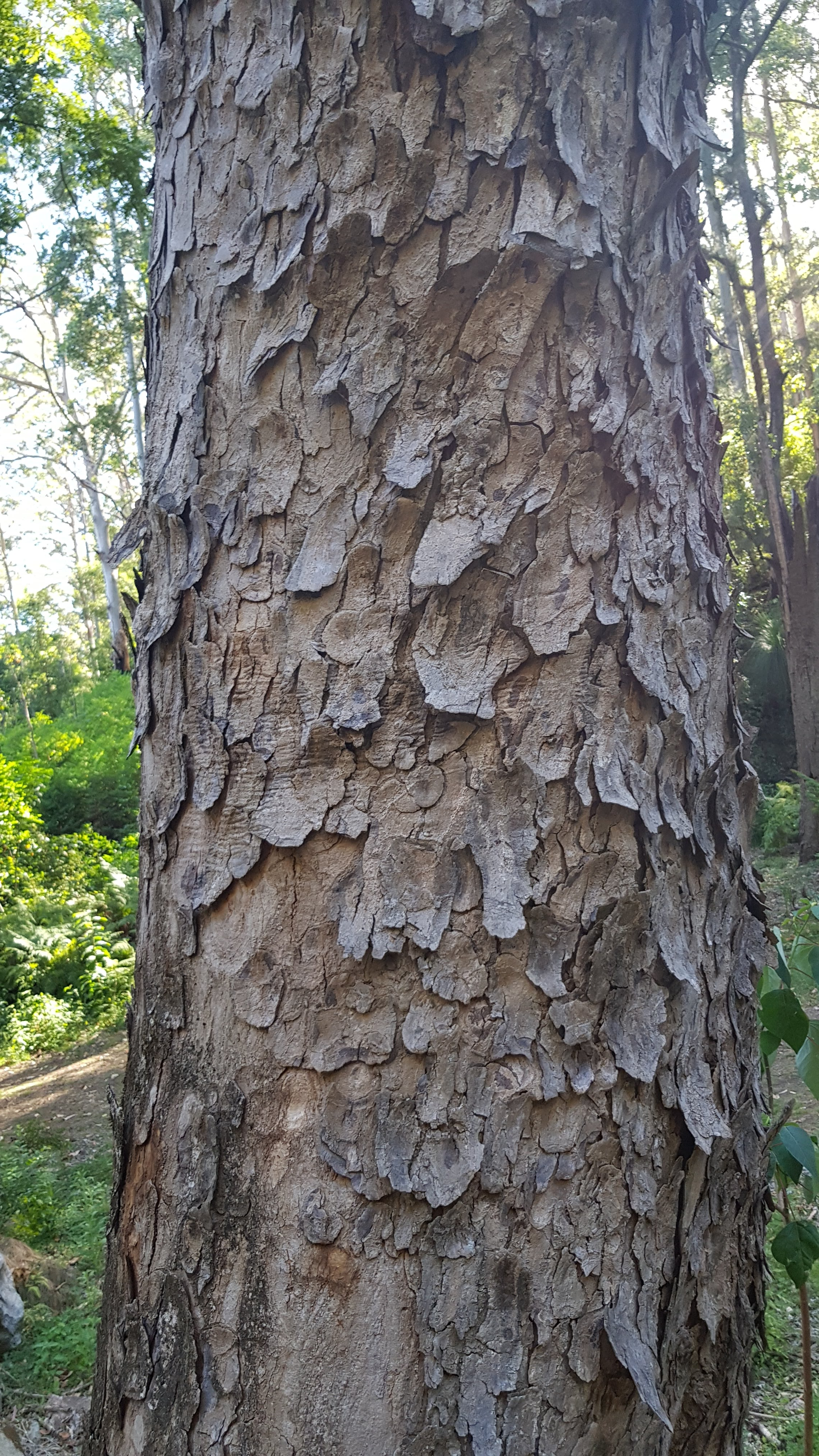 The bark of a mature red cedar, on private property near Macksville, New South Wales, Australia.